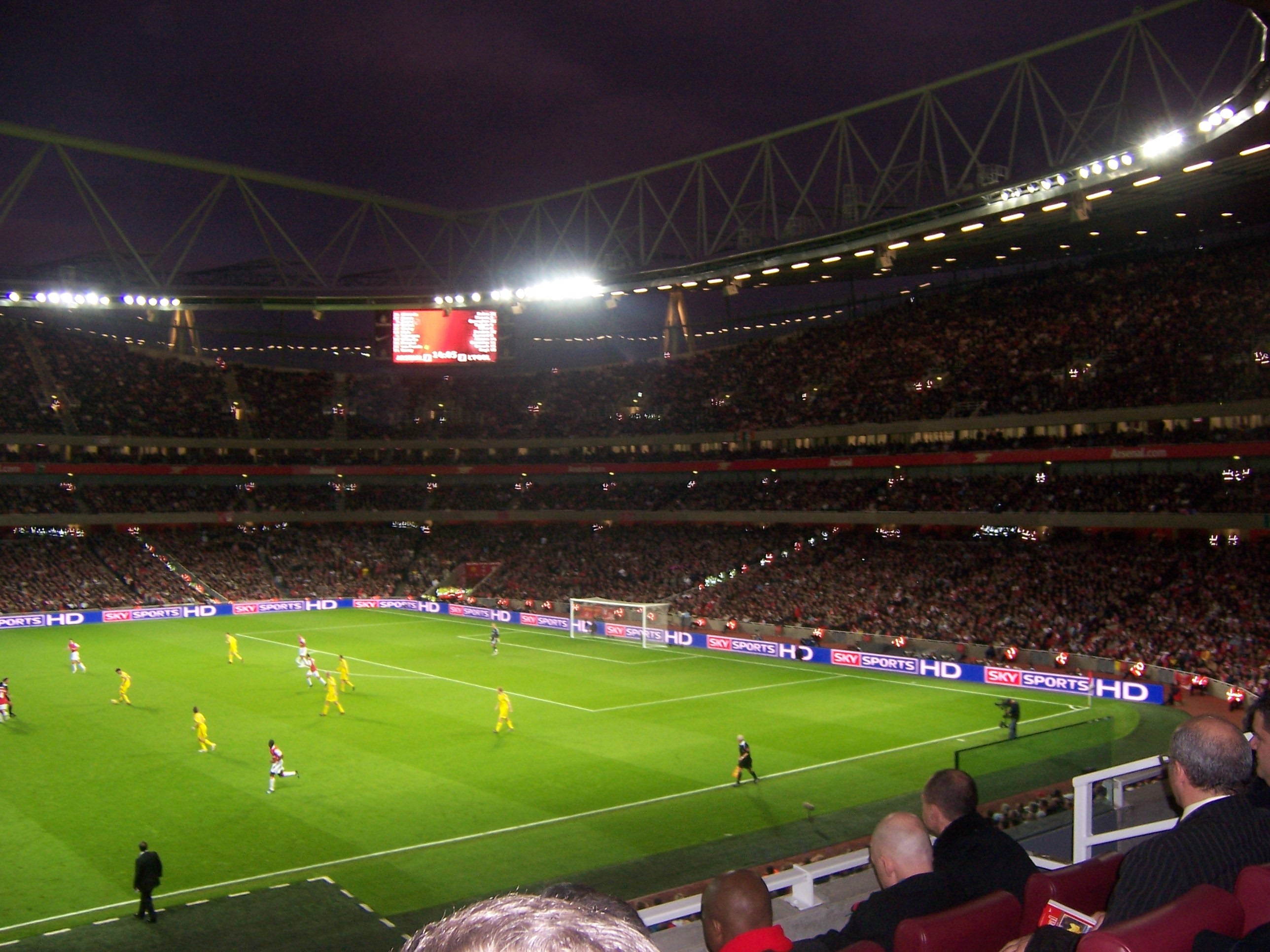 I'm the author, I release this under free license and what not